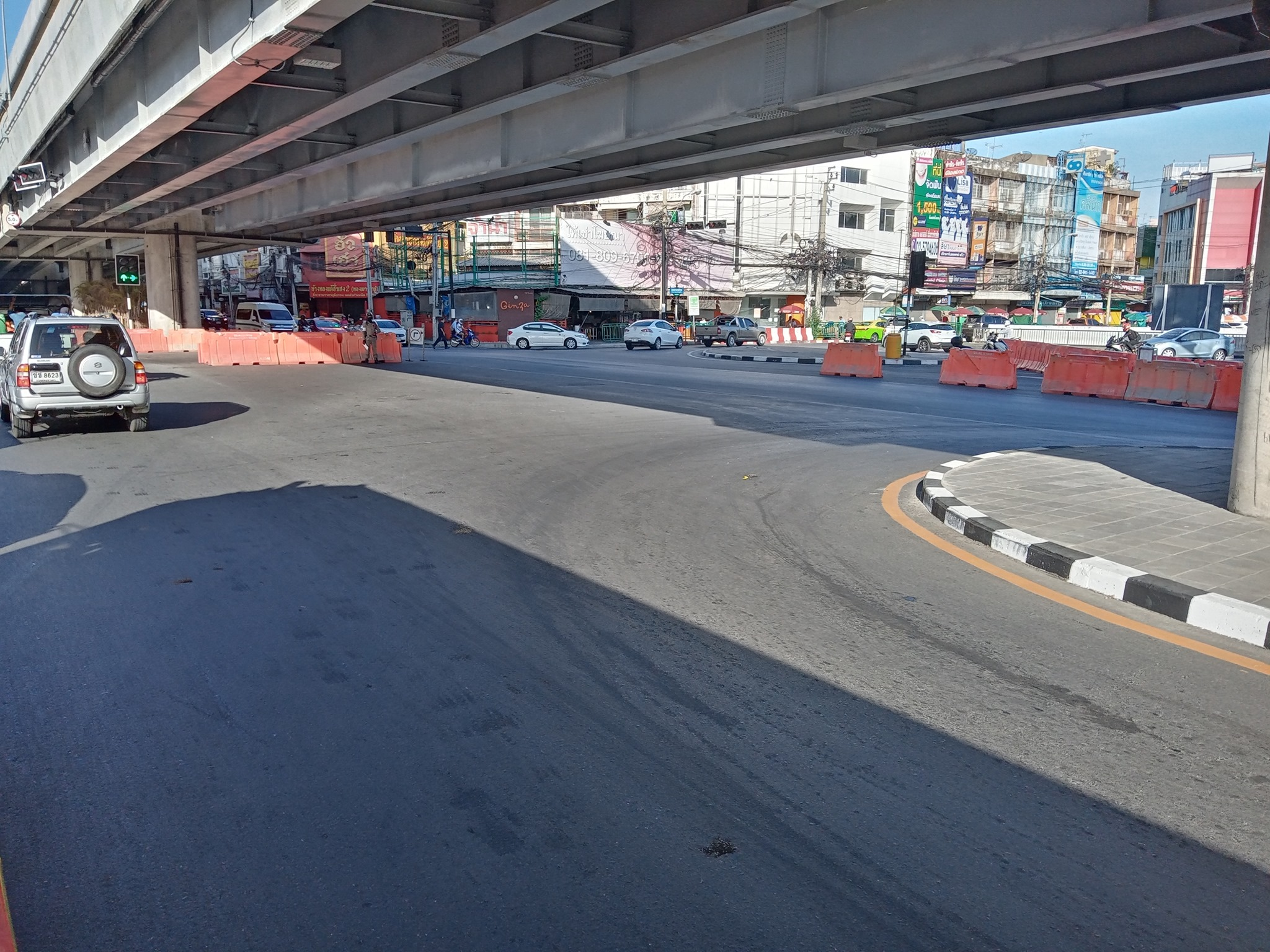 Kaset Intersection, BKK.